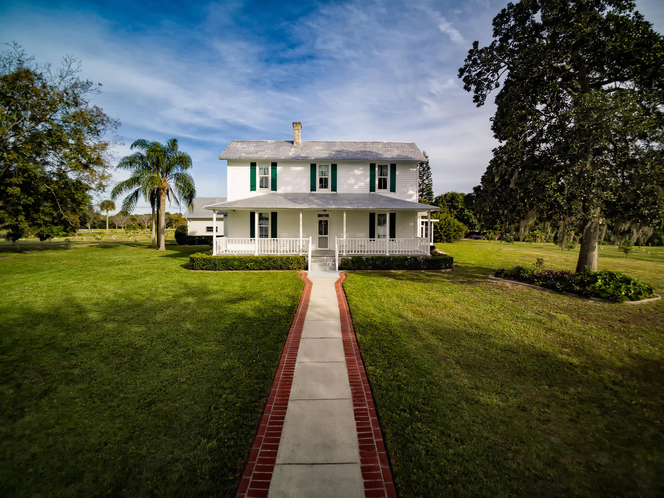 Field Manor Homestead Historic Front Facade